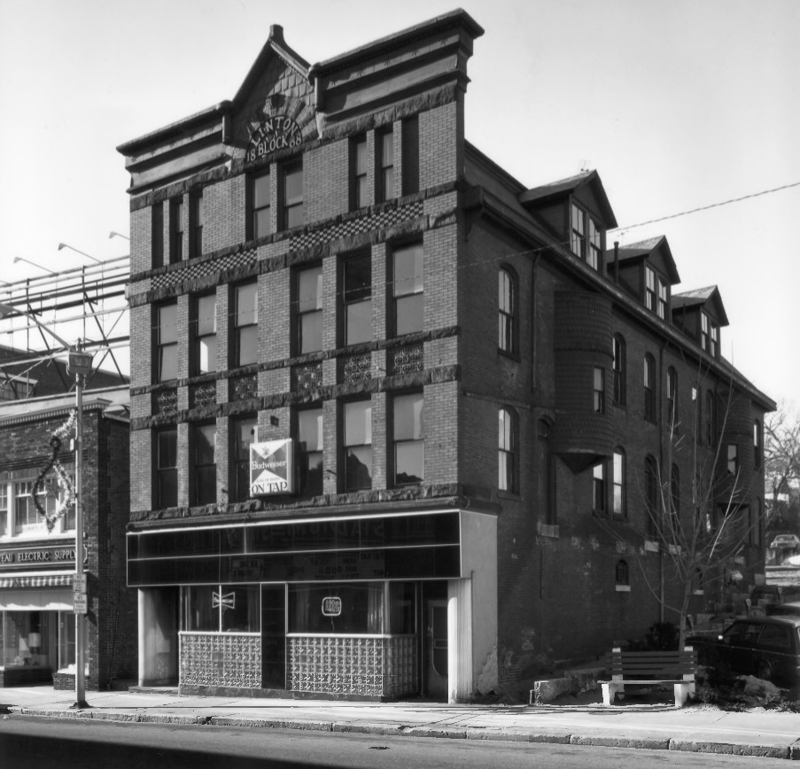 Linton Block, Woonsocket, Rhode Island. Demolished in 2000.